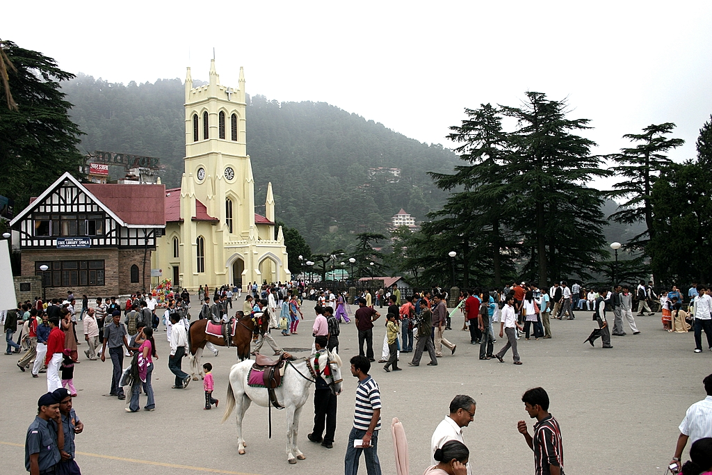 The Ridge, Shimla, HP, India